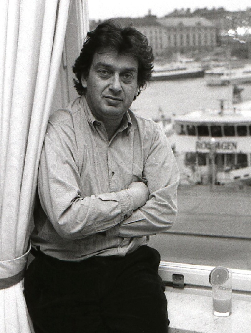 Stephen Frears in Sweden promoting his movie "Dangerous Liaisons"